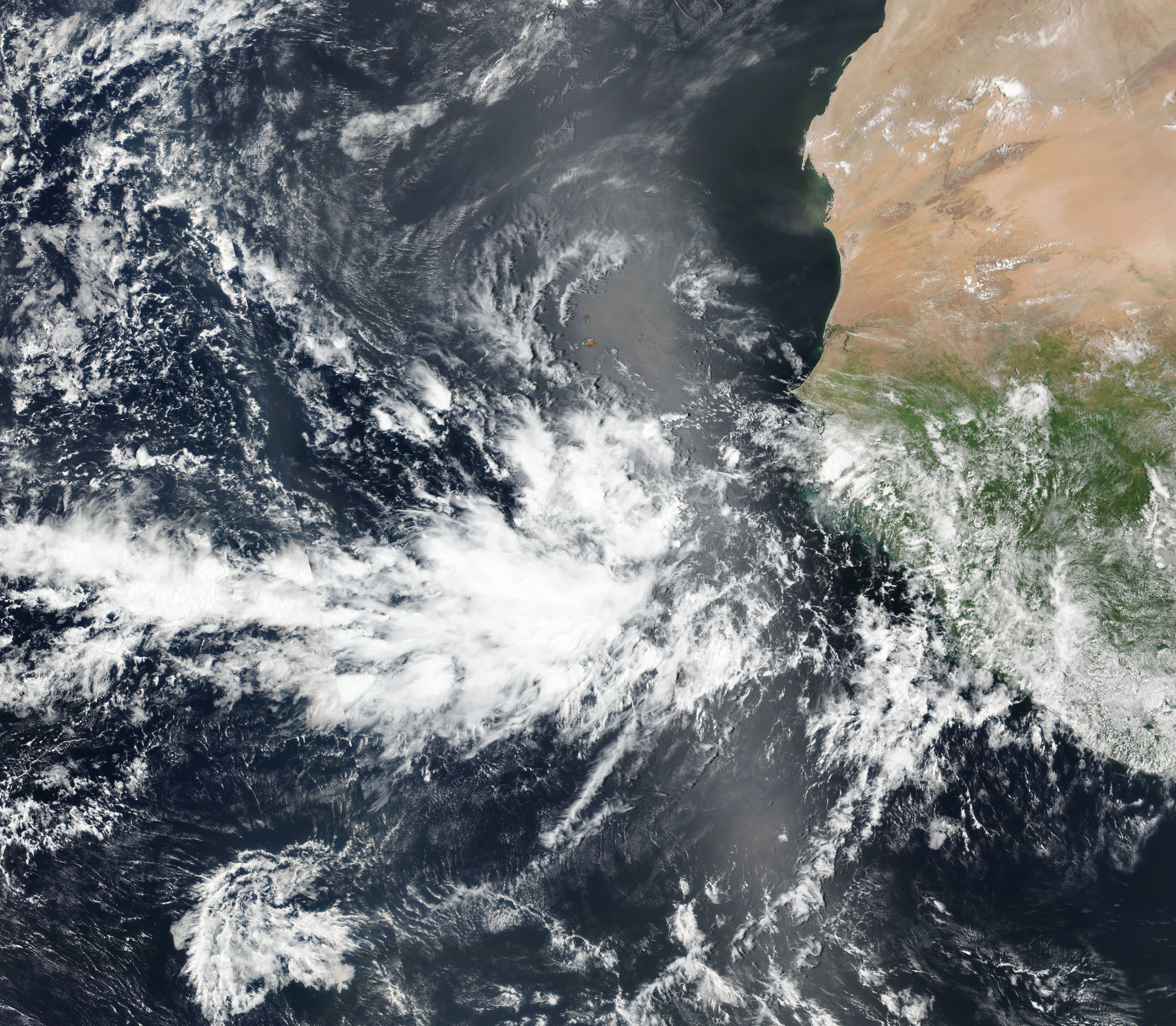 Invest 93L on August 28, 2017. The invest would go on to become Hurricane Irma on August 30.